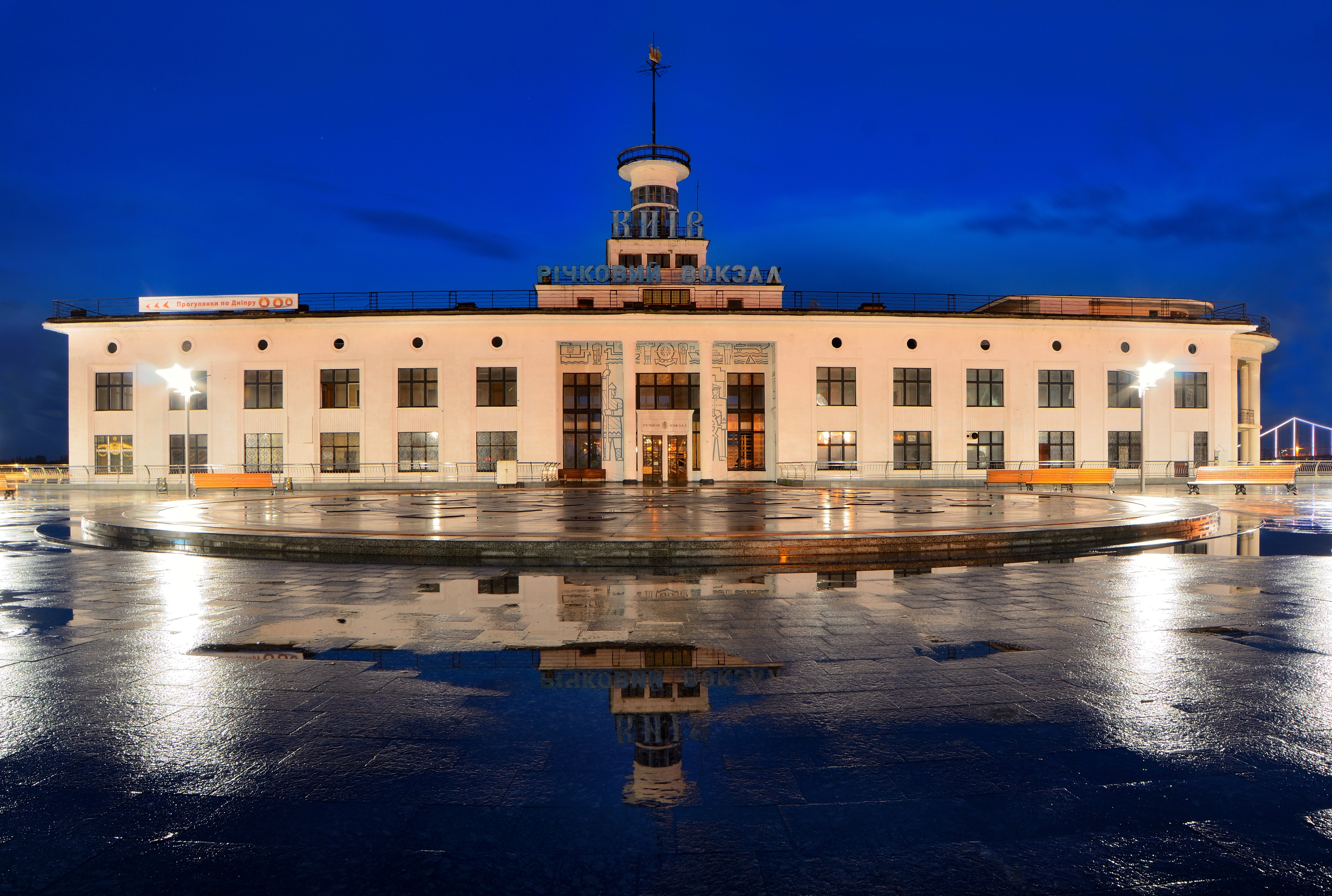 Kyiv River Terminal